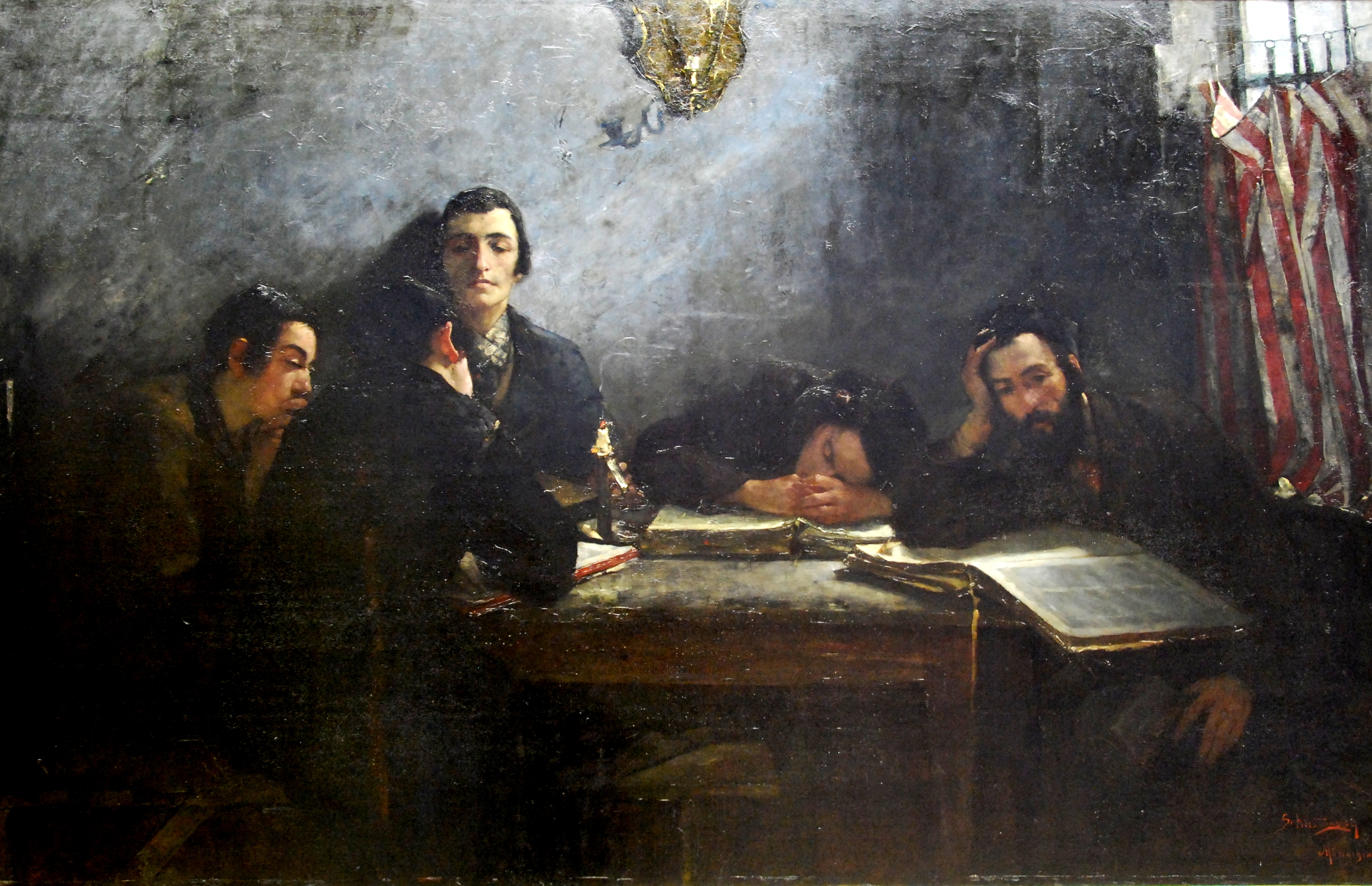 Samuel Hirszenberg 'Talmudists School'